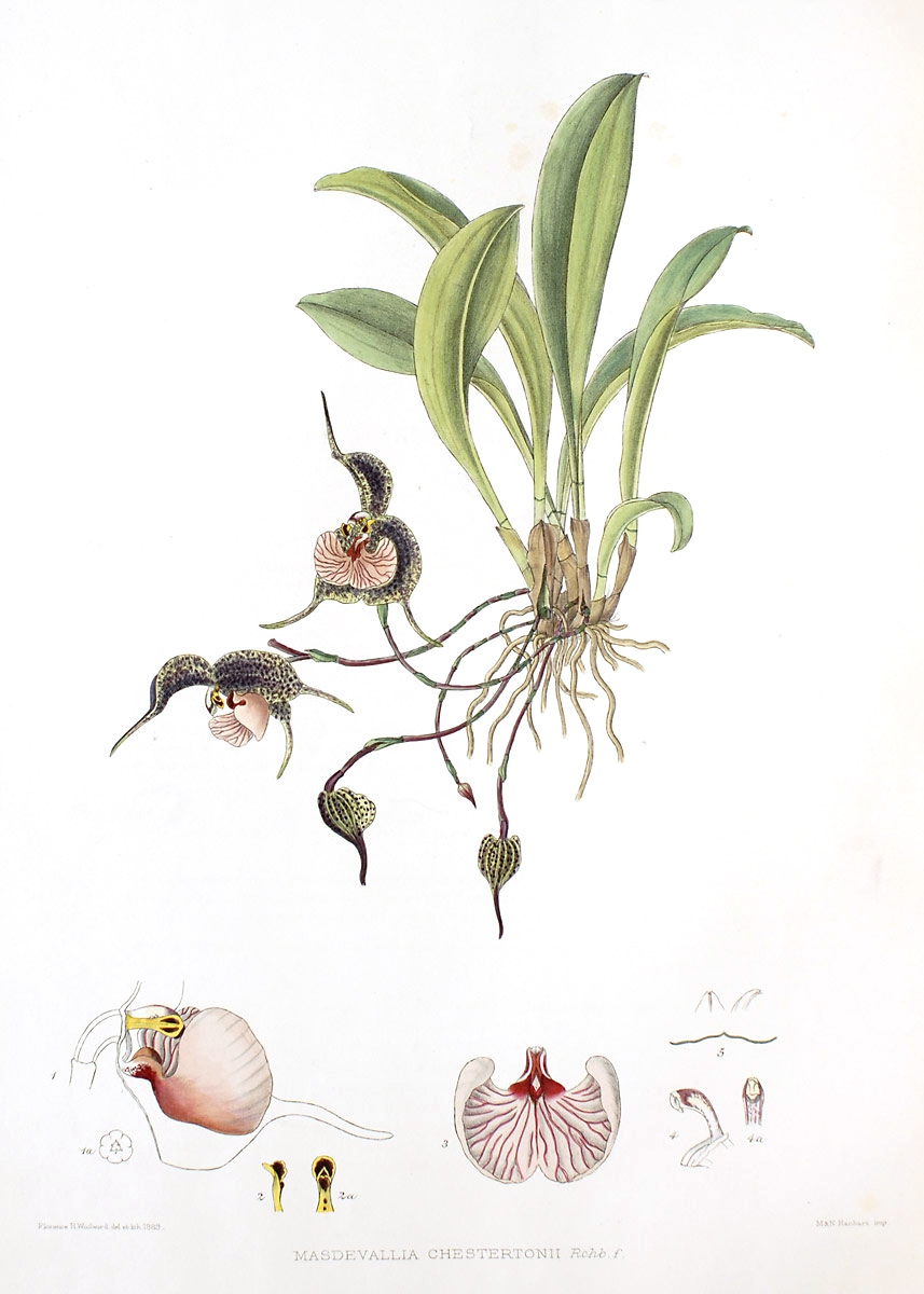 Illustration of Dracula chestertonii from Florence H. Woolward: The Genus Masdevallia